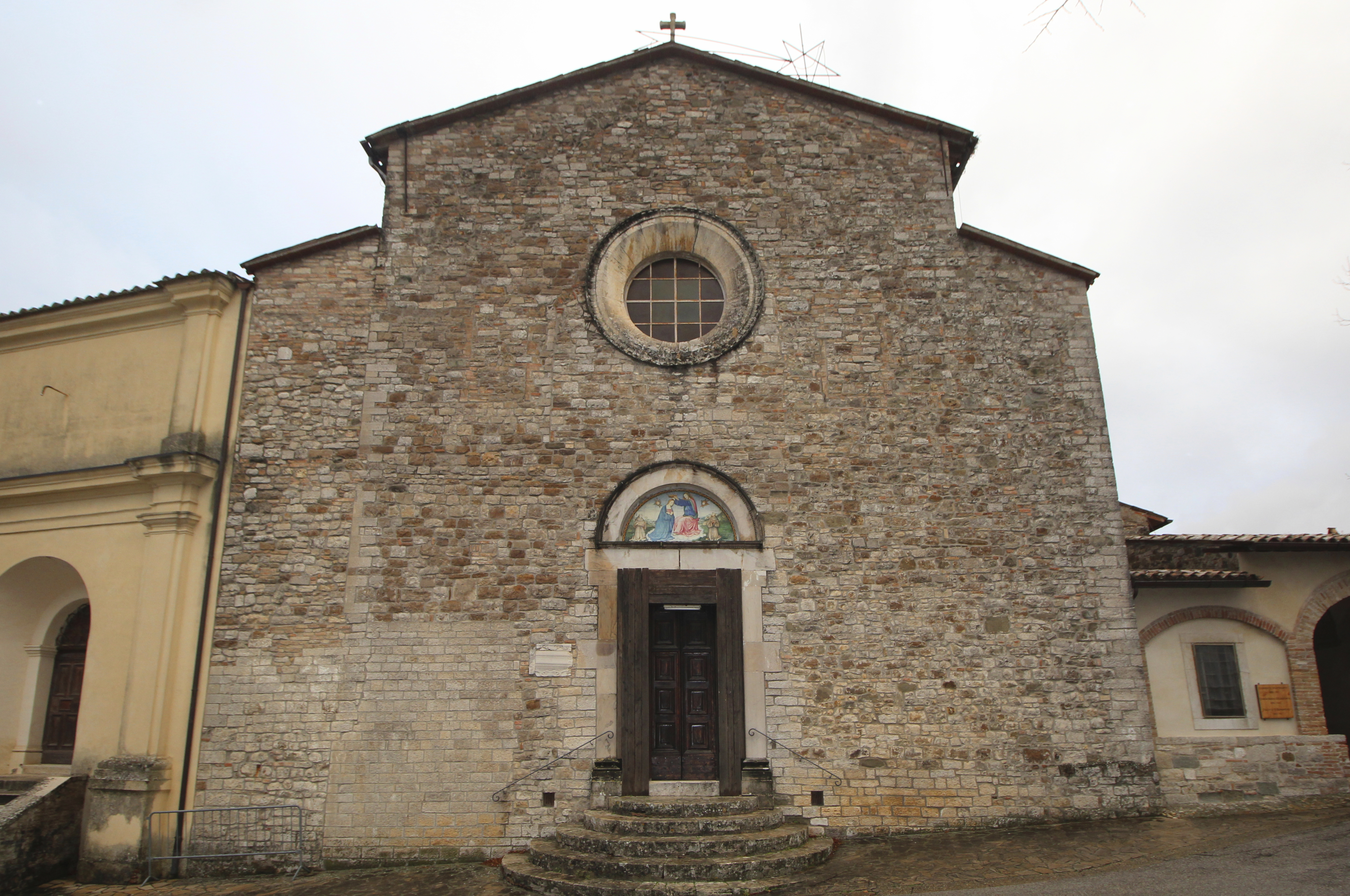 Church Santa Maria Assunta, Convento di Montesanto, Todi, Province of Perugia, Umbria, Italy